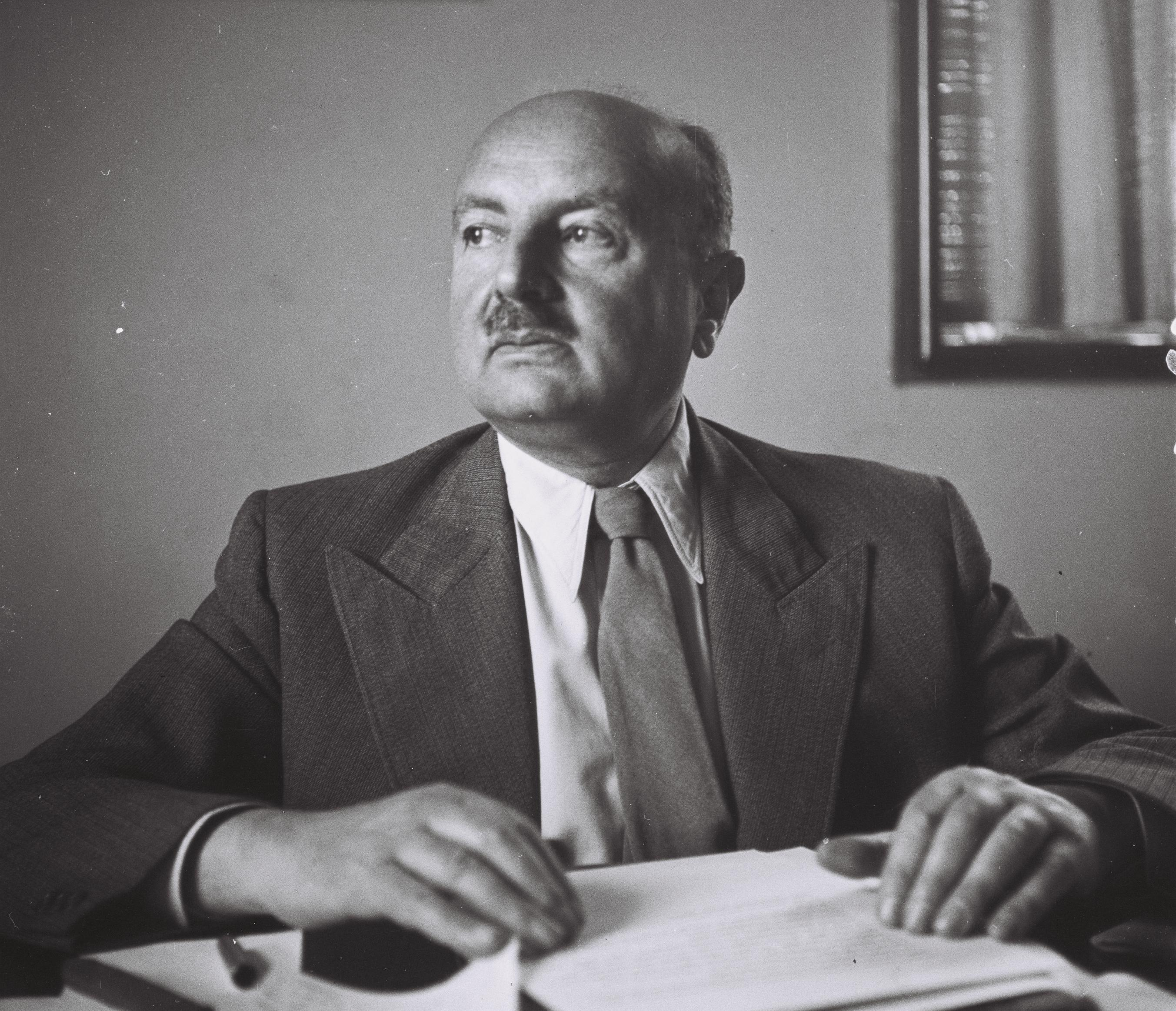 DR. AHARON BART, THE FIRST GOVERNOR OF THE BANK OF BANK.